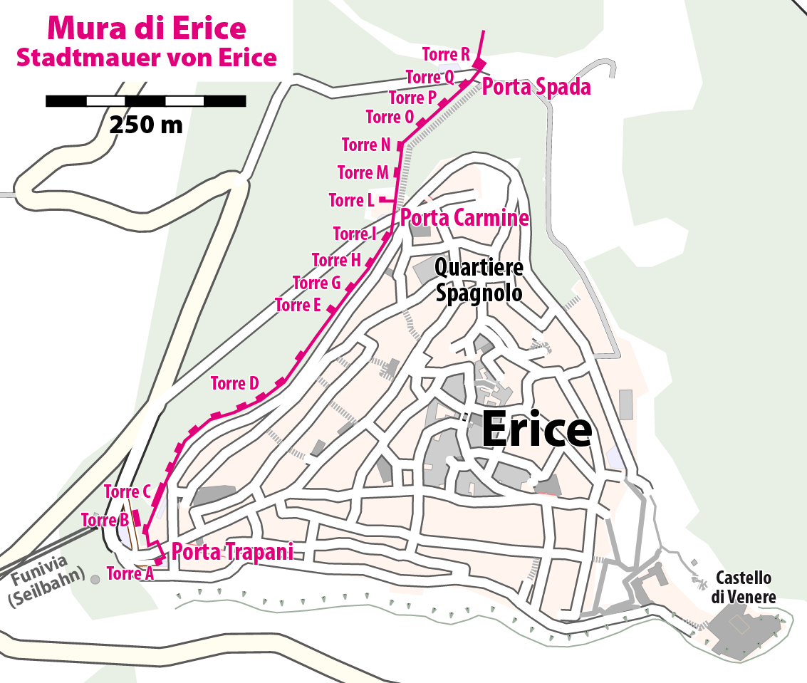 Map of Erice city wall